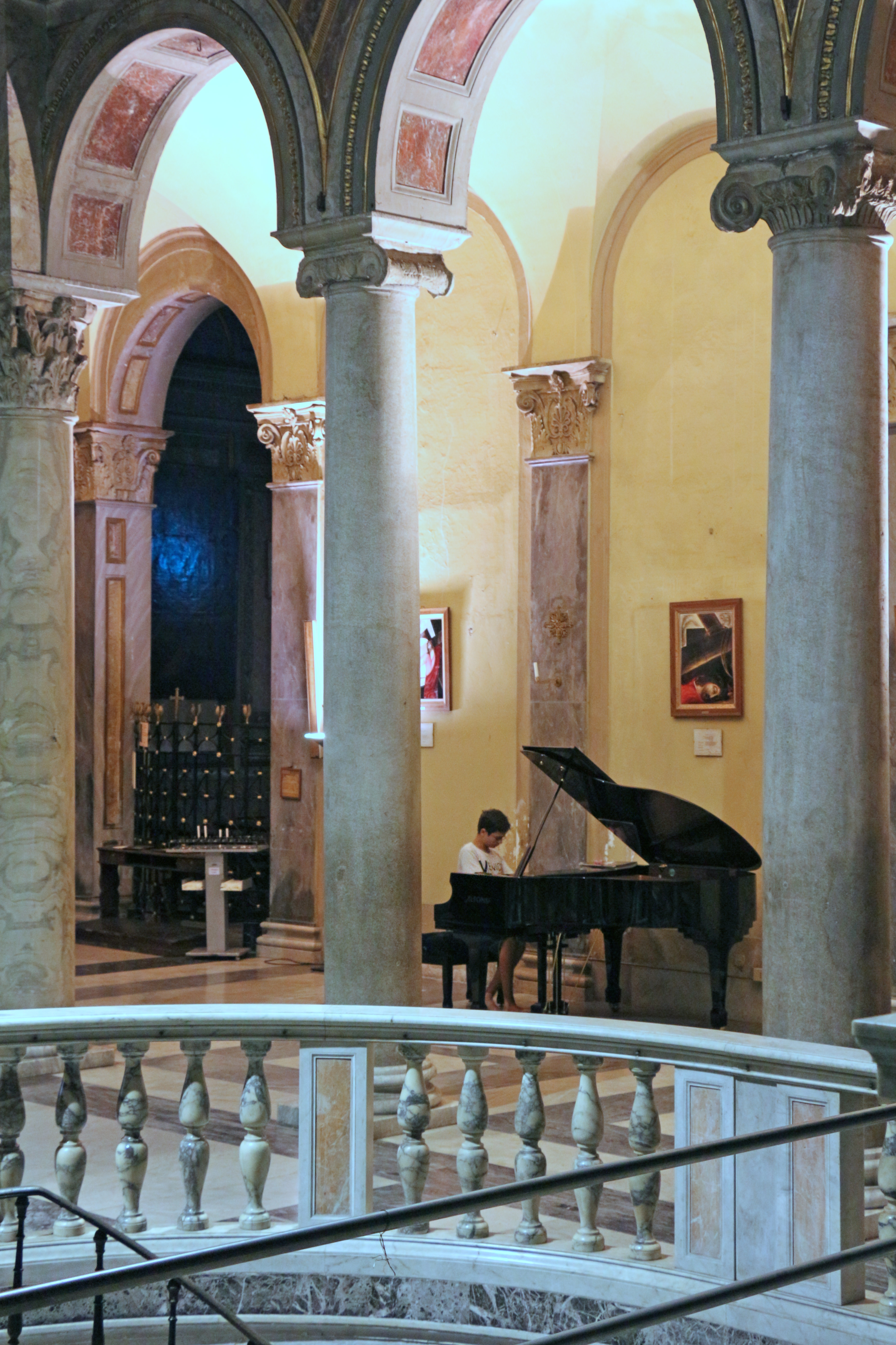 inside church San Nicola in Carcere in Rome